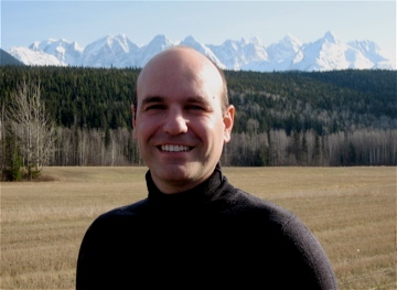 A photograph of Nathan Cullen, MP in front of the Seven Sisters mountain range in Northwestern British Columbia